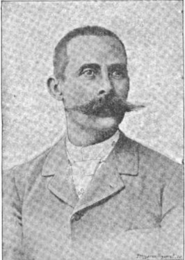 The French explorer Gaston Méry (1844–1896), from his obituary in the Revue tunisienne.